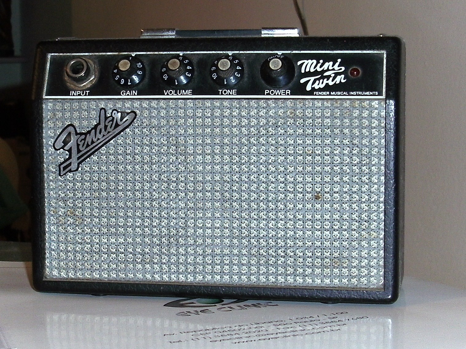 Amplifier Fender mini twin